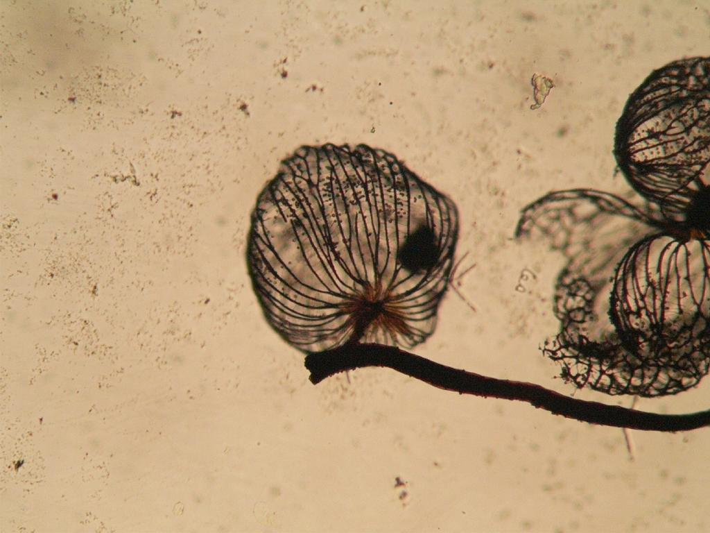 Cribraria cancellata (Cribrariaceae) Japanese name:Kumonosuhokori：クモノスホコリ Date;2009,08.22;Tanabe City, Wakayama prefecture, Japan Author;Keisotyo